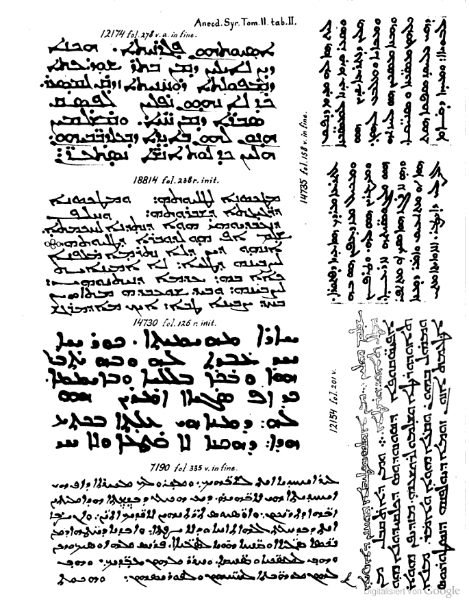 Syrisch-Römisches Rechtsbuch. Seite mit Textvarianten (Tafel II) der Ausgabe von Jan Pieter Nicolaas Land: Anecdota syriaca. Collegit, edidit, explicuit. In: Joannis Episcopi Ephesi Monophysitae Scripta historica quodquod adhuc inedita supereant Syriacae edidit. Anecdoton syriacorum tomus secundus. Lugduni Batavorum, apud E. J. Brill. Academiae typographum, MDXXXLVIII.